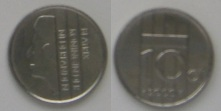 10 cent 2000